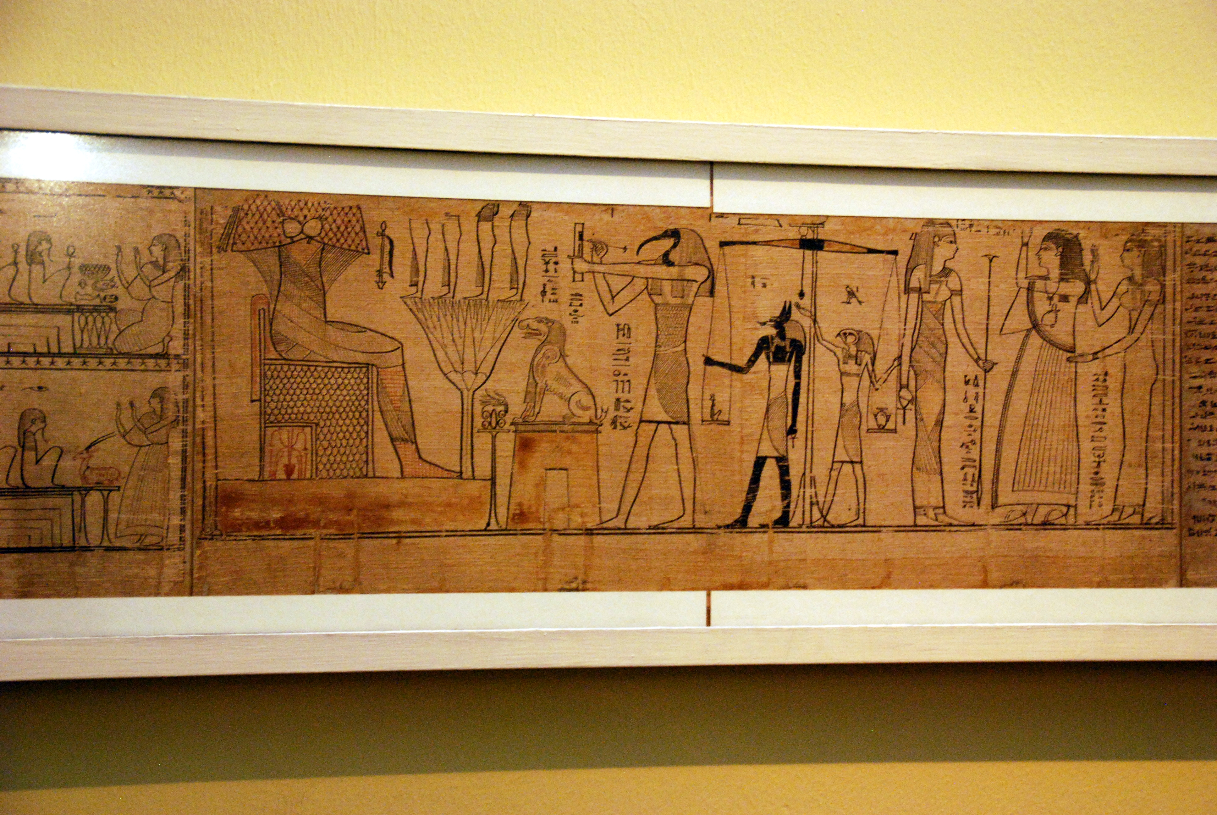 Papyrus with the Book of the Dead of Amun singer Nehem-es-Rataui in hieratic letters; ptolemaic, from Thebes; today in the Museum August Kestner in Hanover. Database link